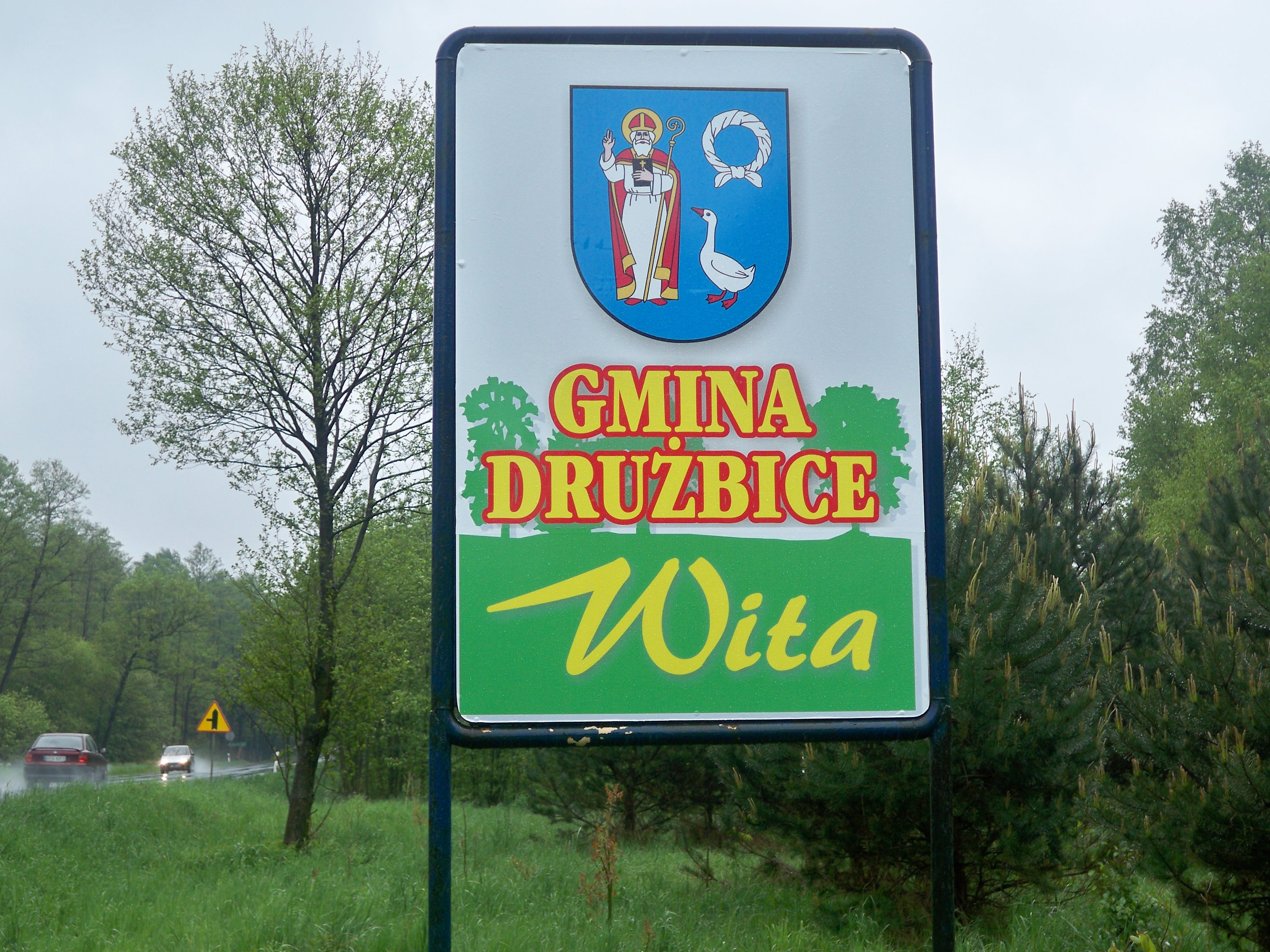 My photo